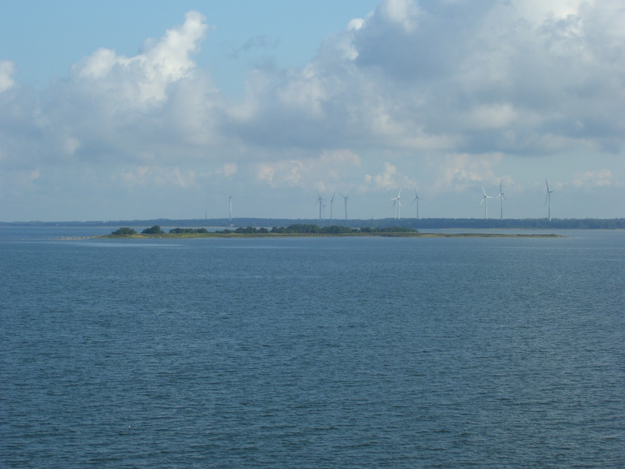 The islet of Kõbajalaid, near Virtsu, Estonia